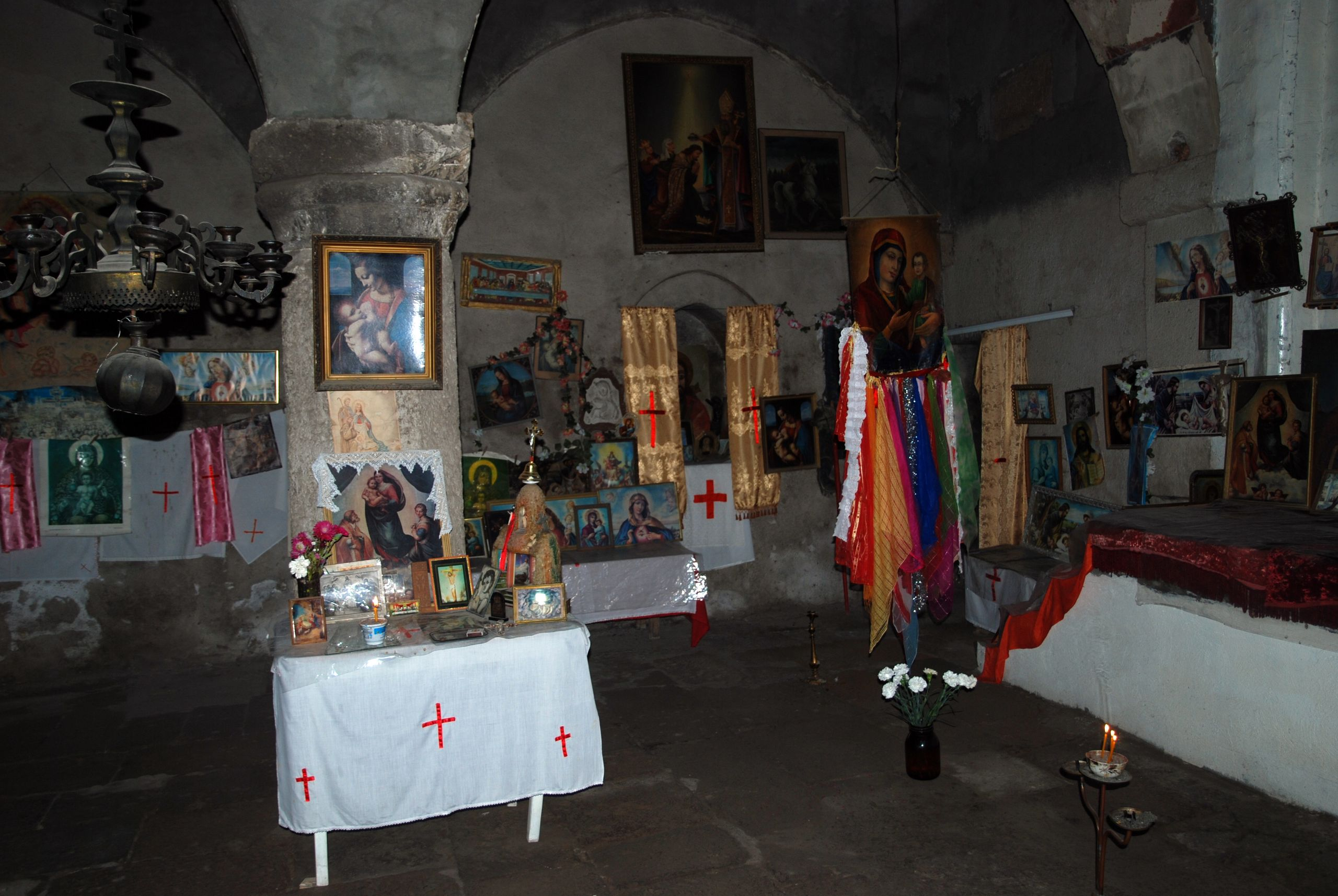 Avan, Holy Mother of God Church